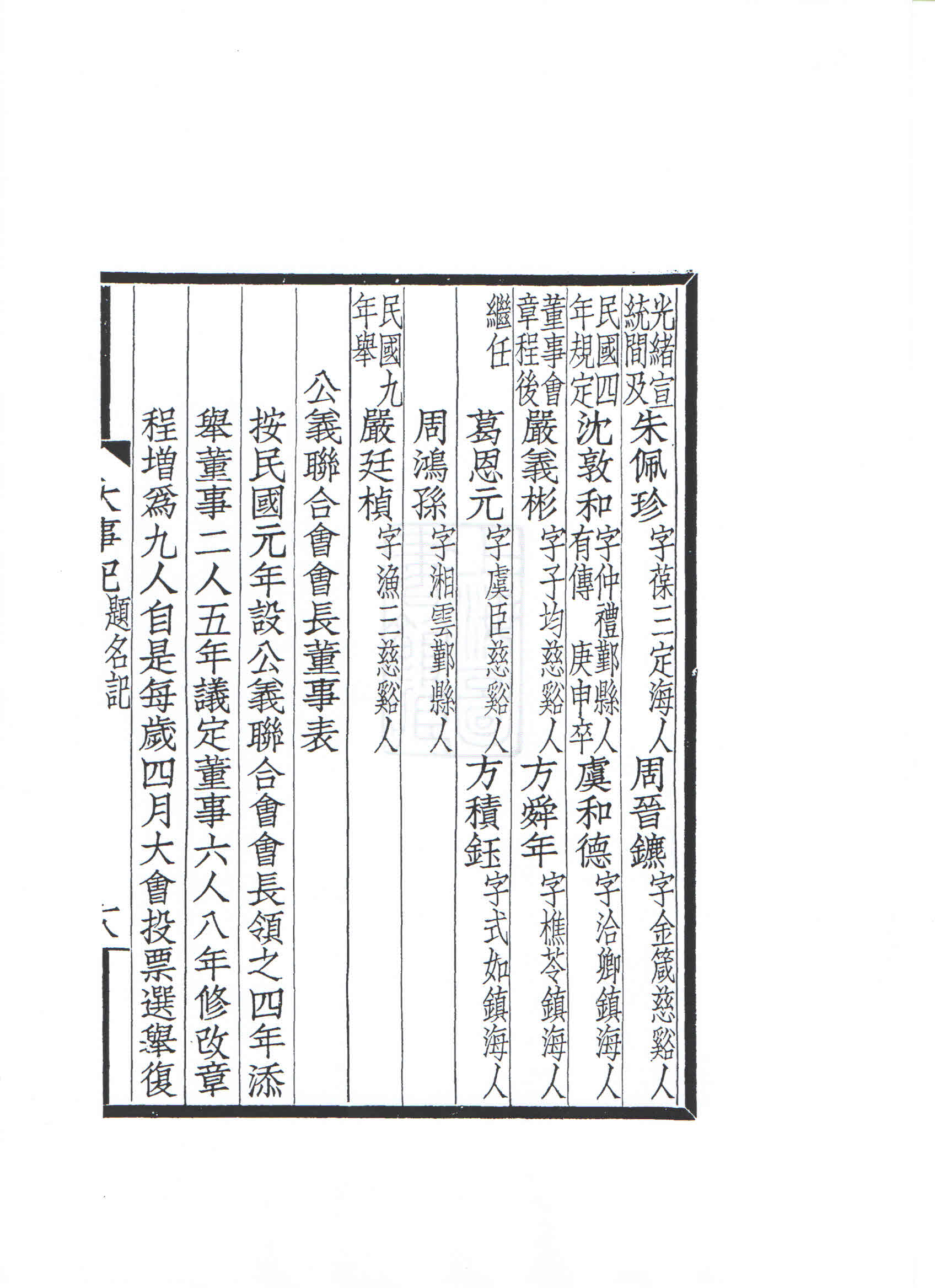 List of Si-Ming Guild Directors (page 5)